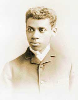 Picture of William Hallet Green